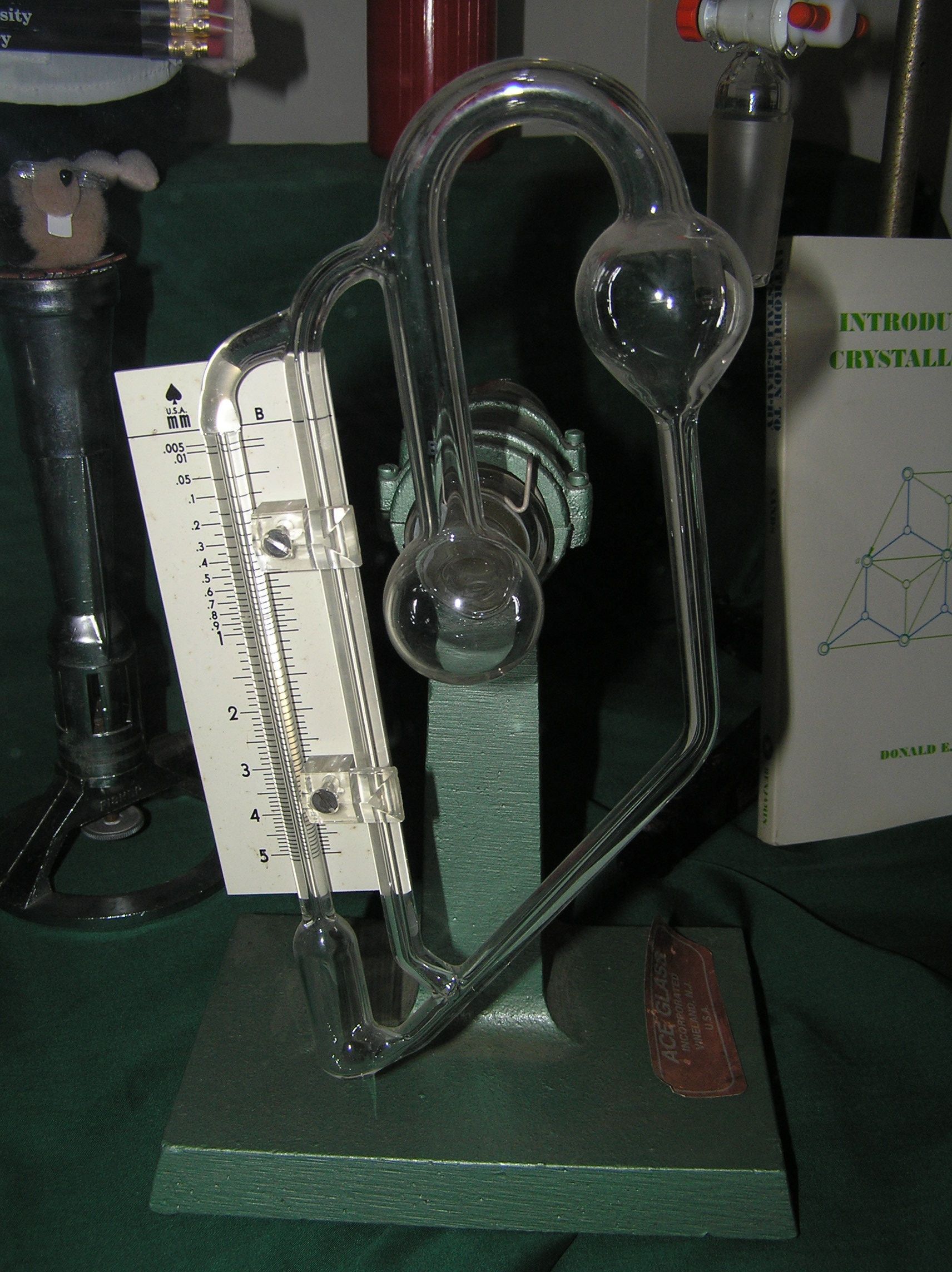 An old McLeod gauge is low pressure measuring instrument, which is used for high precision measurement of vacuum. As shown, it has been drained of mercury. This gauge is on display in the lobby of the Science building at Winthrop University. The vacuum port is not visible in the photograph; it runs through the center bearing and opens on the far side. The left hand column is sealed off at the top; this is visible by zooming in on the picture. The gauge was rotated clockwise to reset and counterclockwise to measure. Photo by Yannick Trottier, April 10th, 2006.